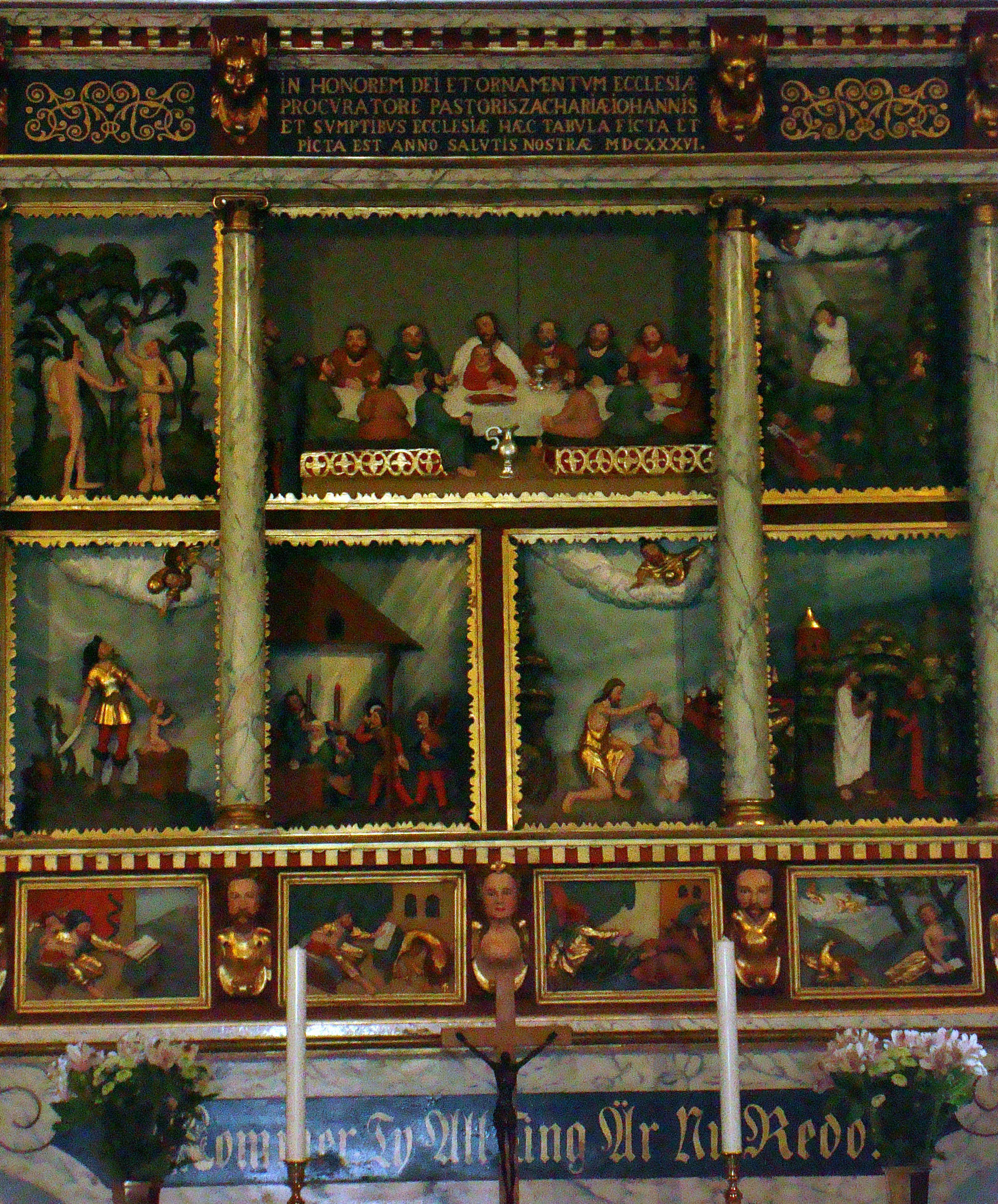 Altarpiece in Hakarp